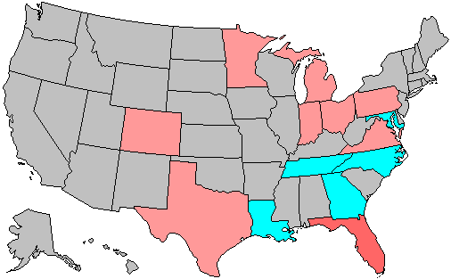 Summary of party change of U.S. house seats in the 2002 House election. Stripes indicate a tie between the gains of two or more parties. Legend: 6+ Democratic seat pickup 3-5 Democratic seat pickup 1-2 Democratic seat pickup 1-2 Republican seat pickup 3-5 Republican seat pickup 6+ Republican seat pickup